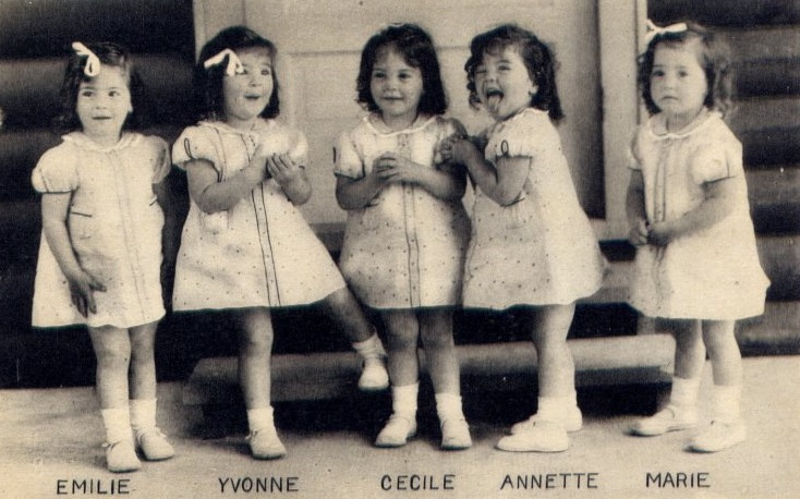 Dionne quintuplets